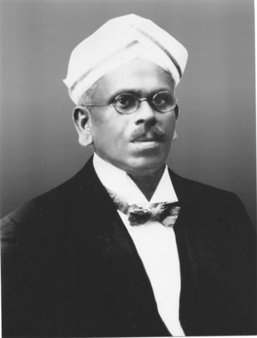 Taken in 1934 at his home.